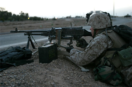 A U.S. marine from Weapons Platoon, Company E, 2nd Battalion, 1st Marine Regiment, 1st Marine Division, mans an M240G machine gun at the Highway 1 "cloverleaf" outside the city of Fallujah, Iraq, April 5, 2004. U.S. marines isolated the city after terrorists repeately attacked coalition forces. The USMC operation is designed to root out enemy forces.